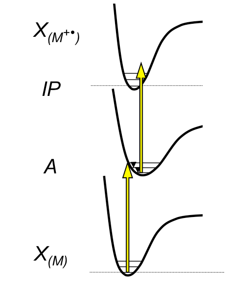 Schematic of ionization mechanism of Atmospheric Pressure Laser Ionization (APLI): 1+1 REMPI under atmospheric pressure conditions